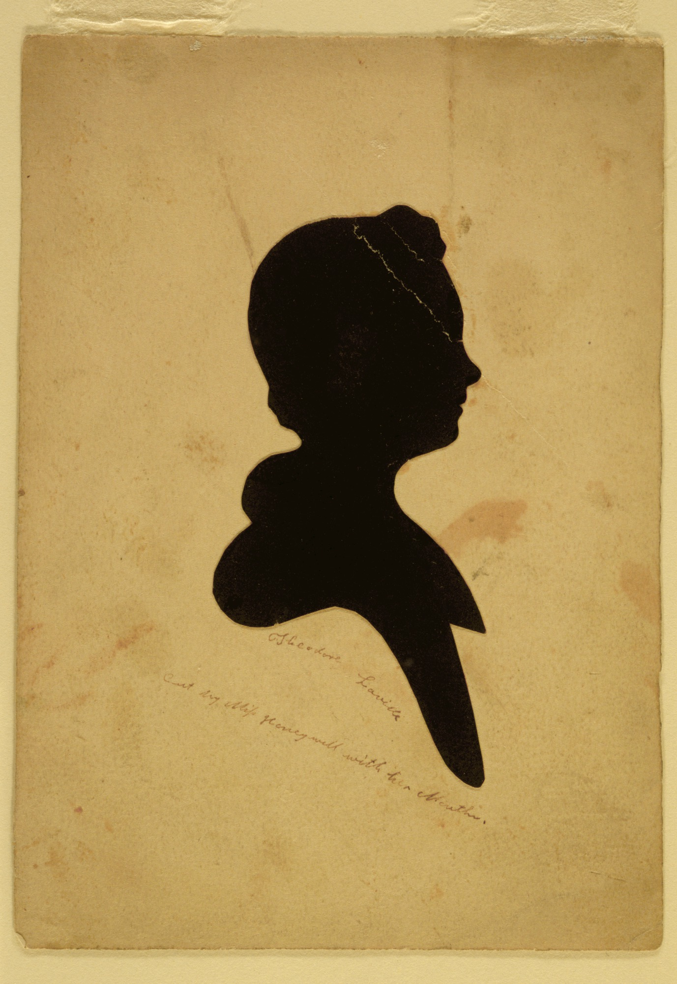 Silhouette of Theodore Laveille cut by Martha Ann Honeywell, born without armsTitle: Silhouette of Theodore Laveille Cut by Martha Ann Honeywell